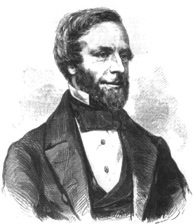 Alexander H. Rice, Mayor of Boston